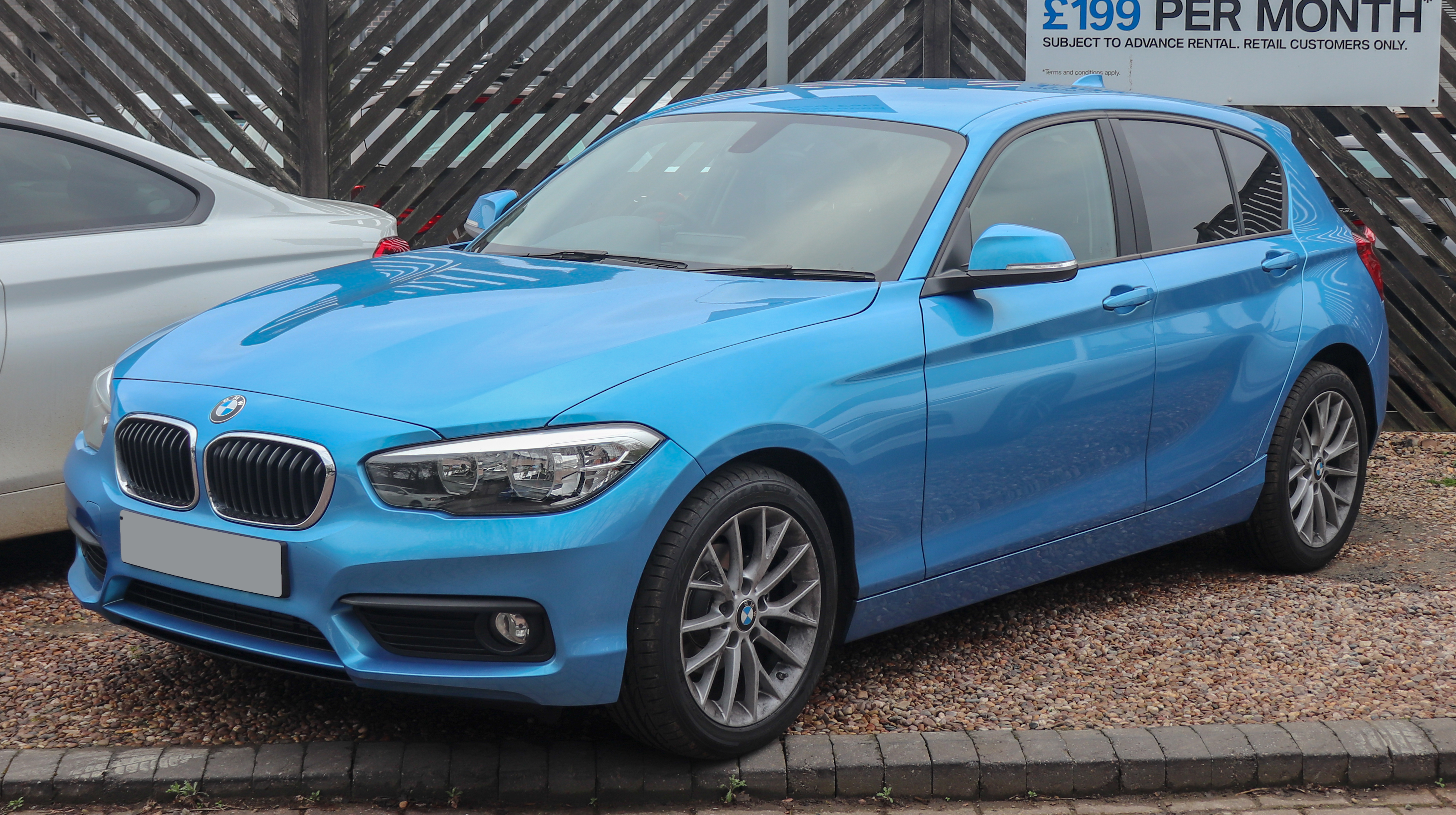 2018 BMW 118i SE Automatic 1.5 Taken in Leamington Spa